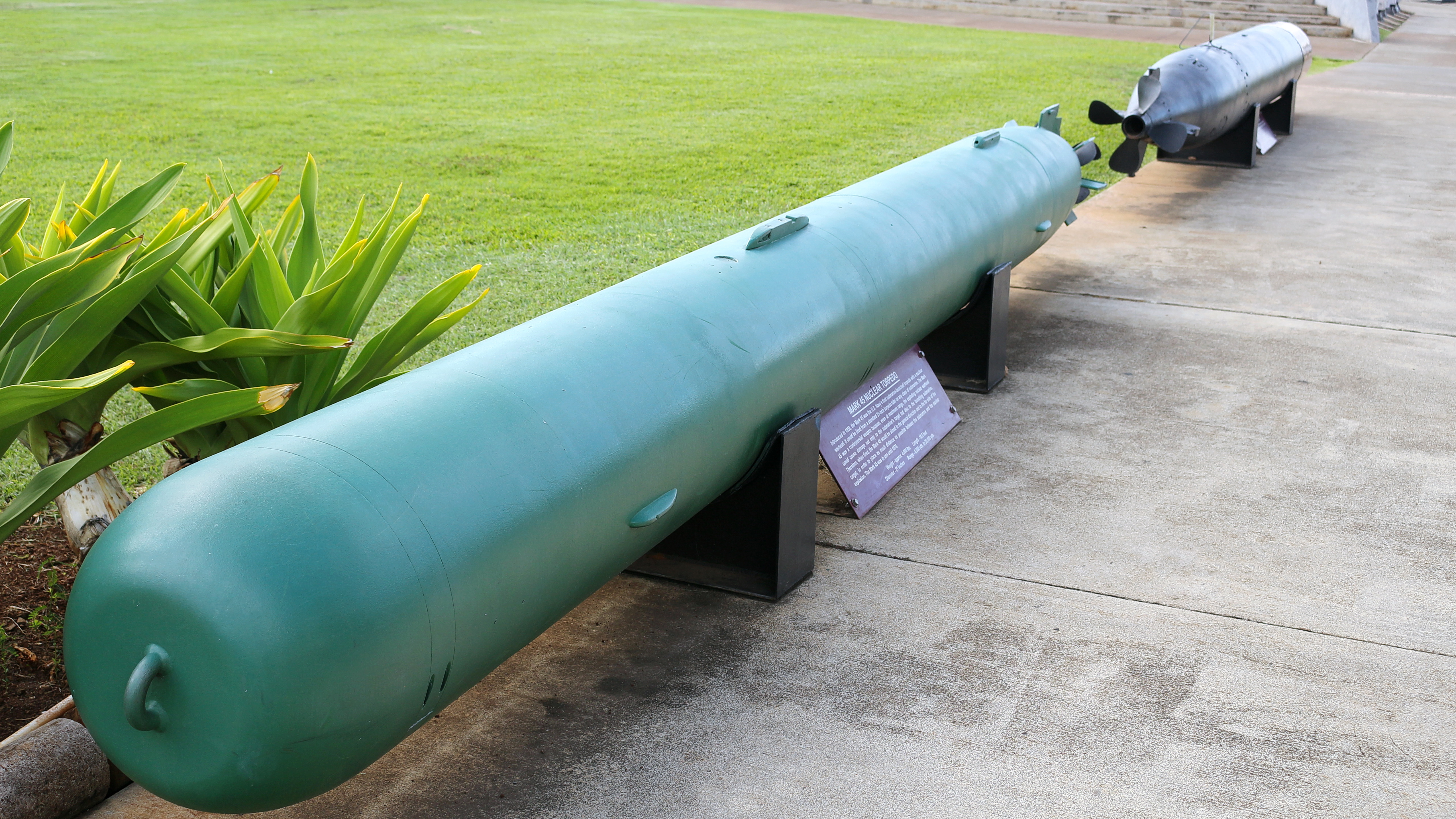 World War II Valor in the Pacific Monument, Pearl Harbor, Honolulu, Oahu, Hawaii, United States